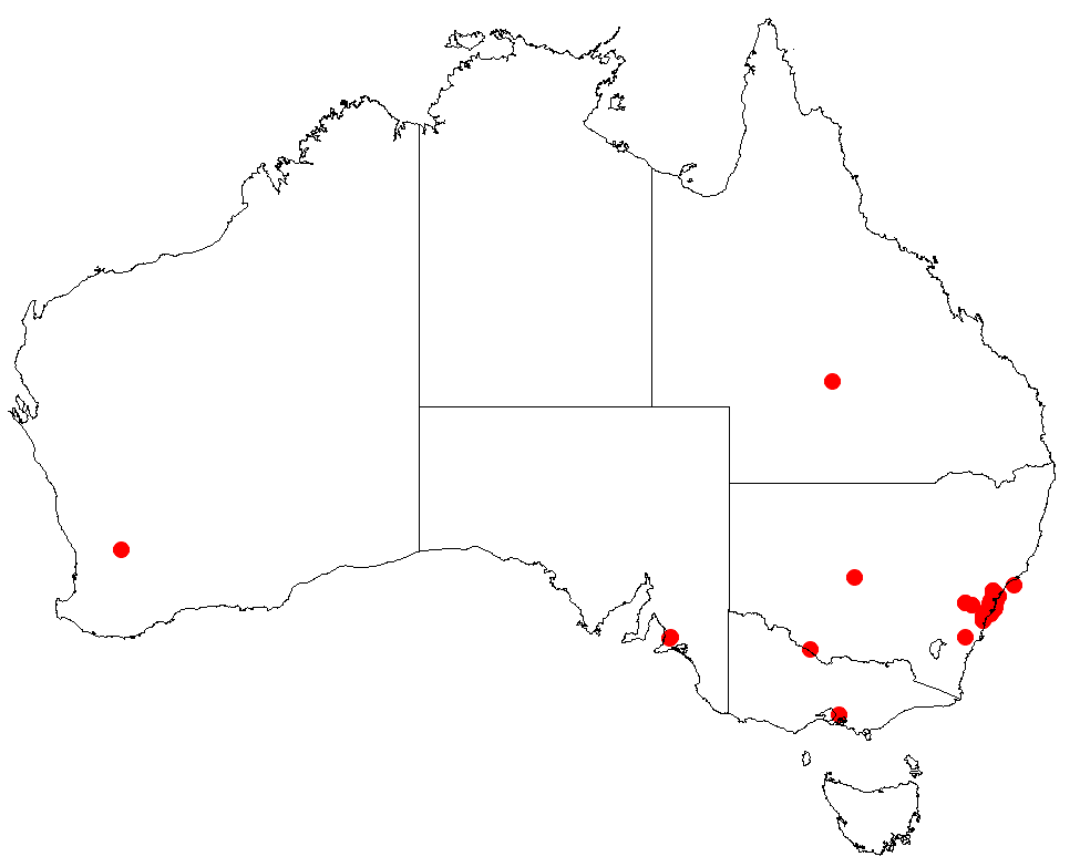 Hakea gibbosa Occurrence data downloaded from Australasian Virtual Herbarium on 22 November 2018 using